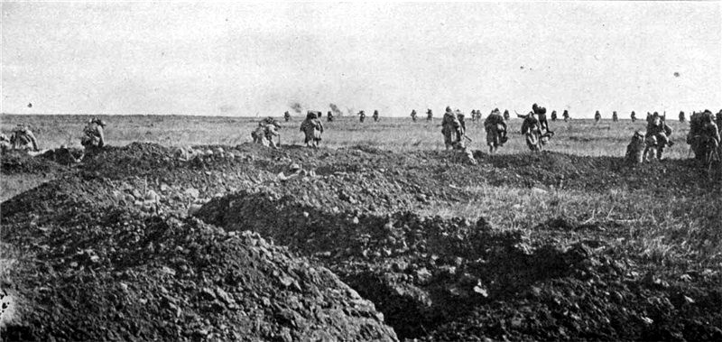 French charge in the Chemin des Dames